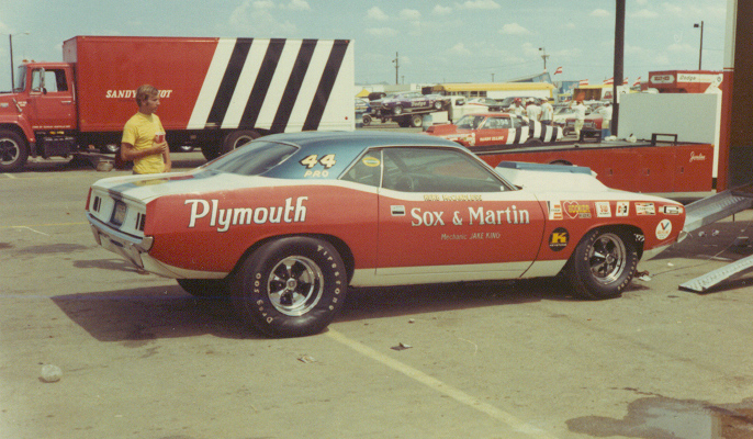 Sox & Martin, Dallas 1971Sox & Martin